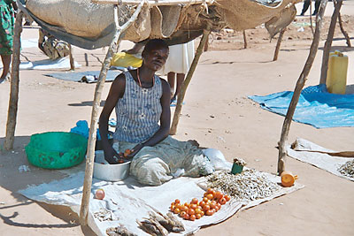 Women in market stall in Labuje IDP camp for internally displaced persons near Kitgum town, Northern Region of Uganda. From